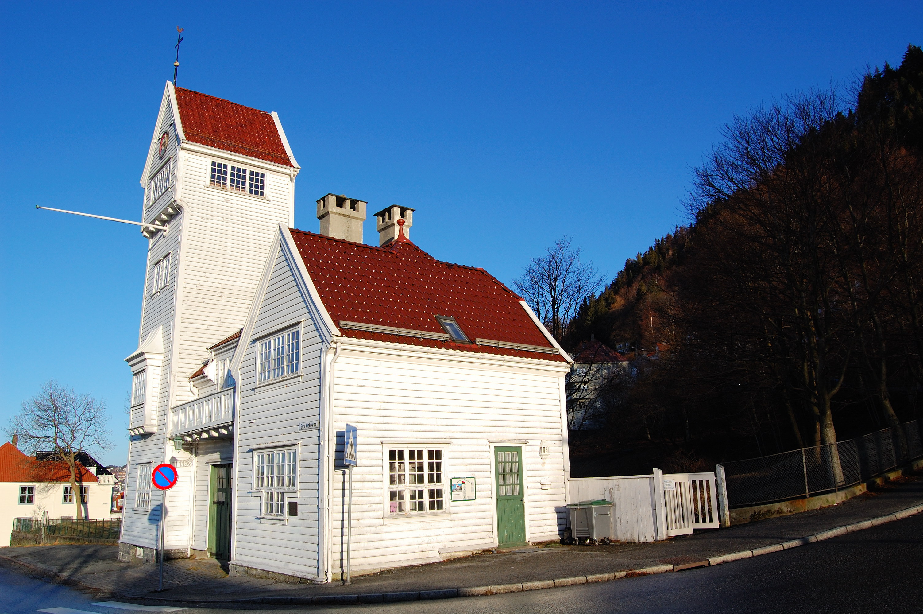 House situated below the Fløyen mountain in Bergen, Norway.